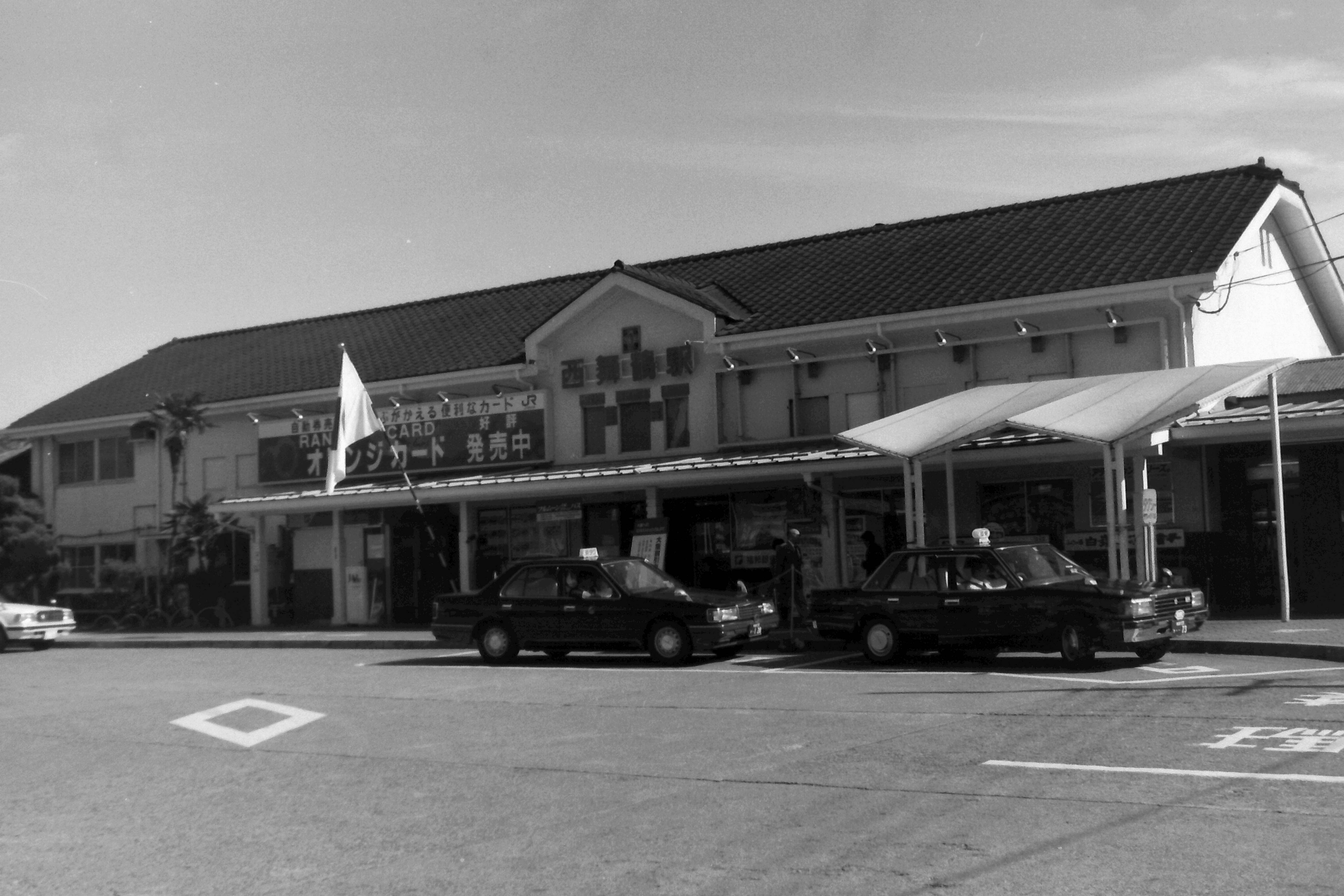 Nishi Maizuru station, November 1988